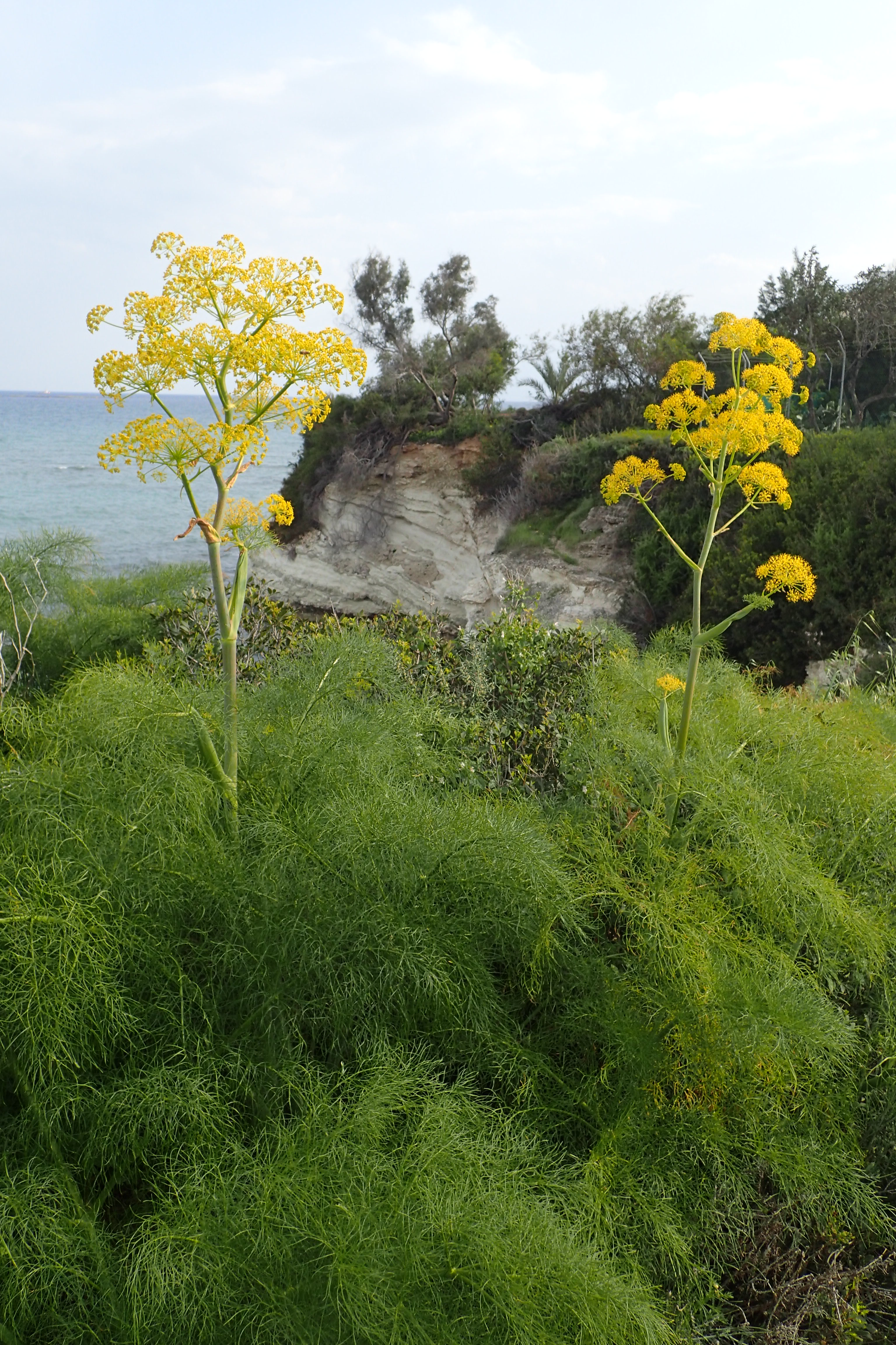 Ferula communis at Governors Beach, Cyprus